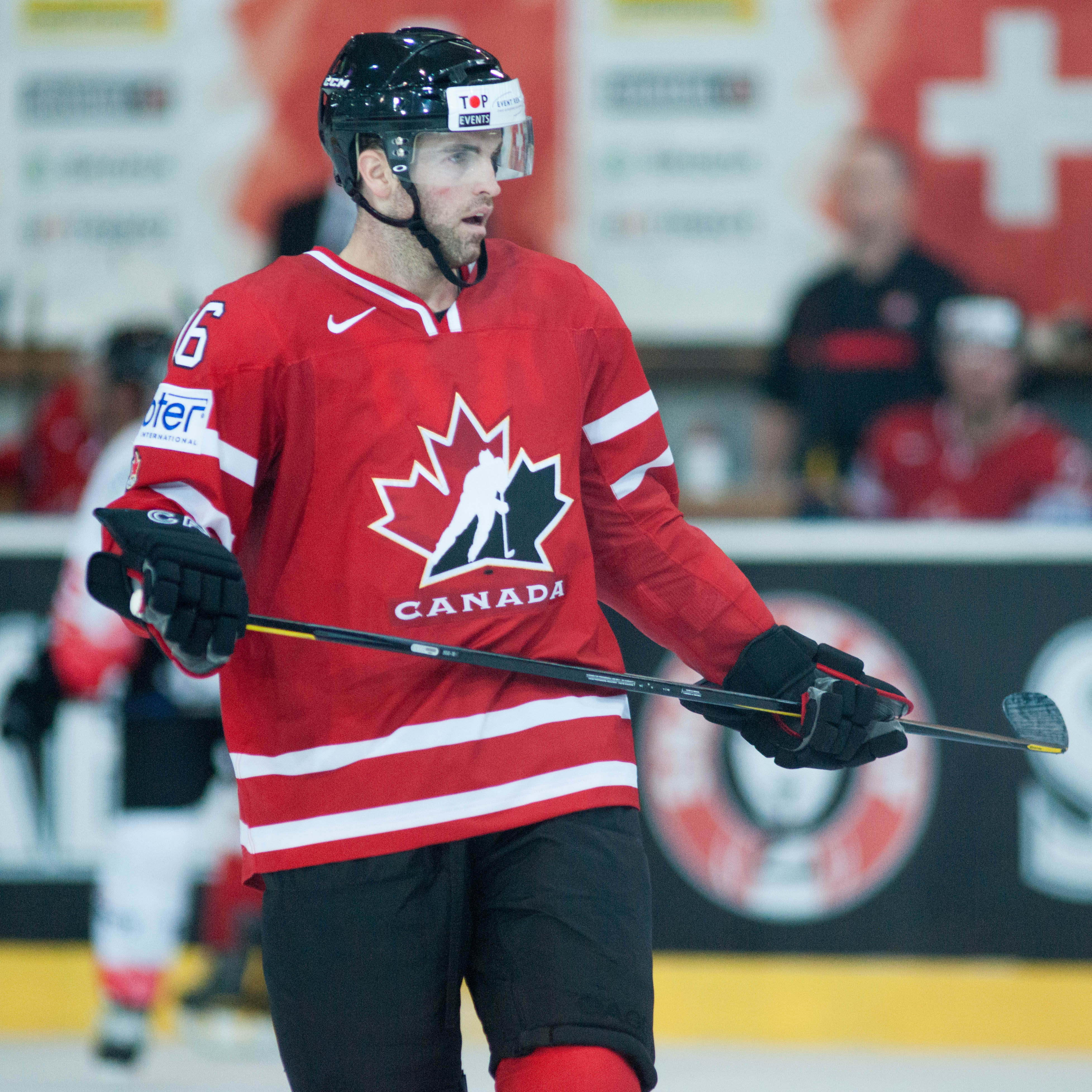 Switzerland vs. Canada, 29th April 2012